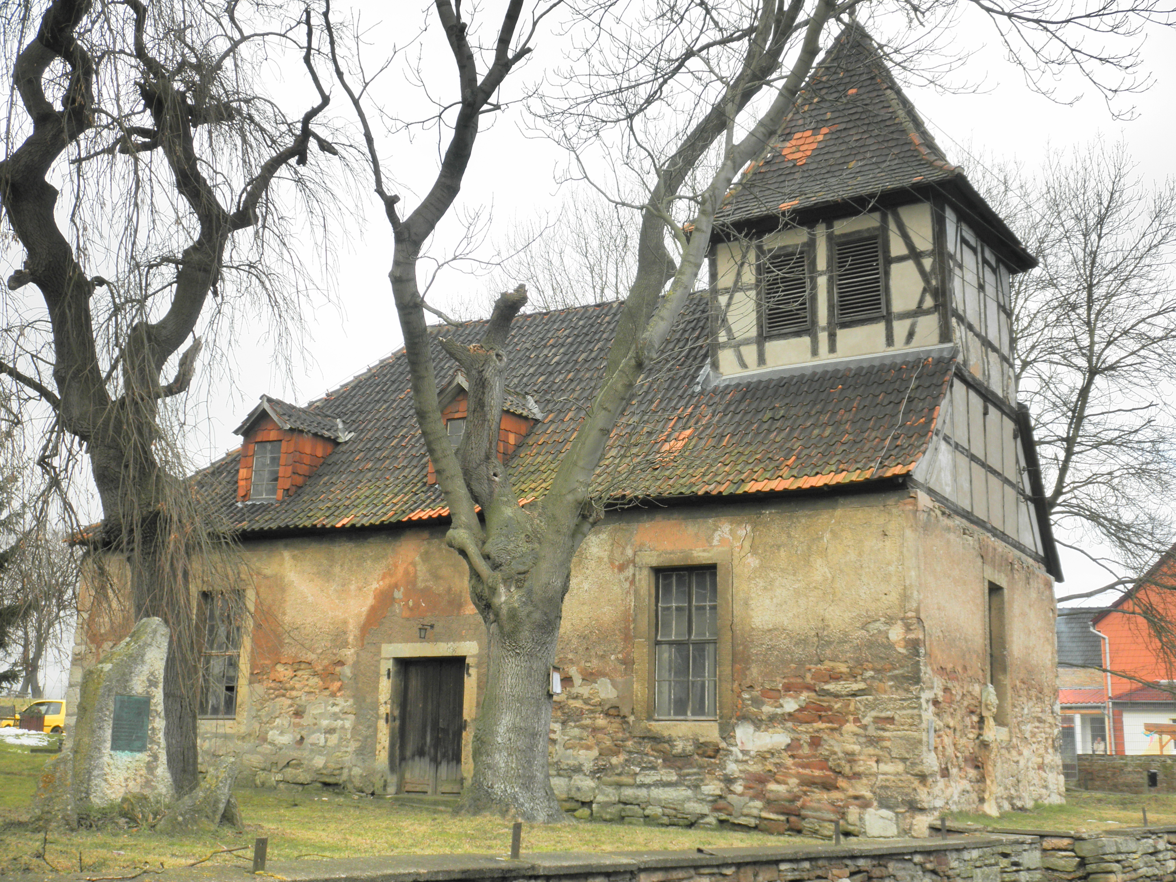 Church in Mörbach in Thuringia